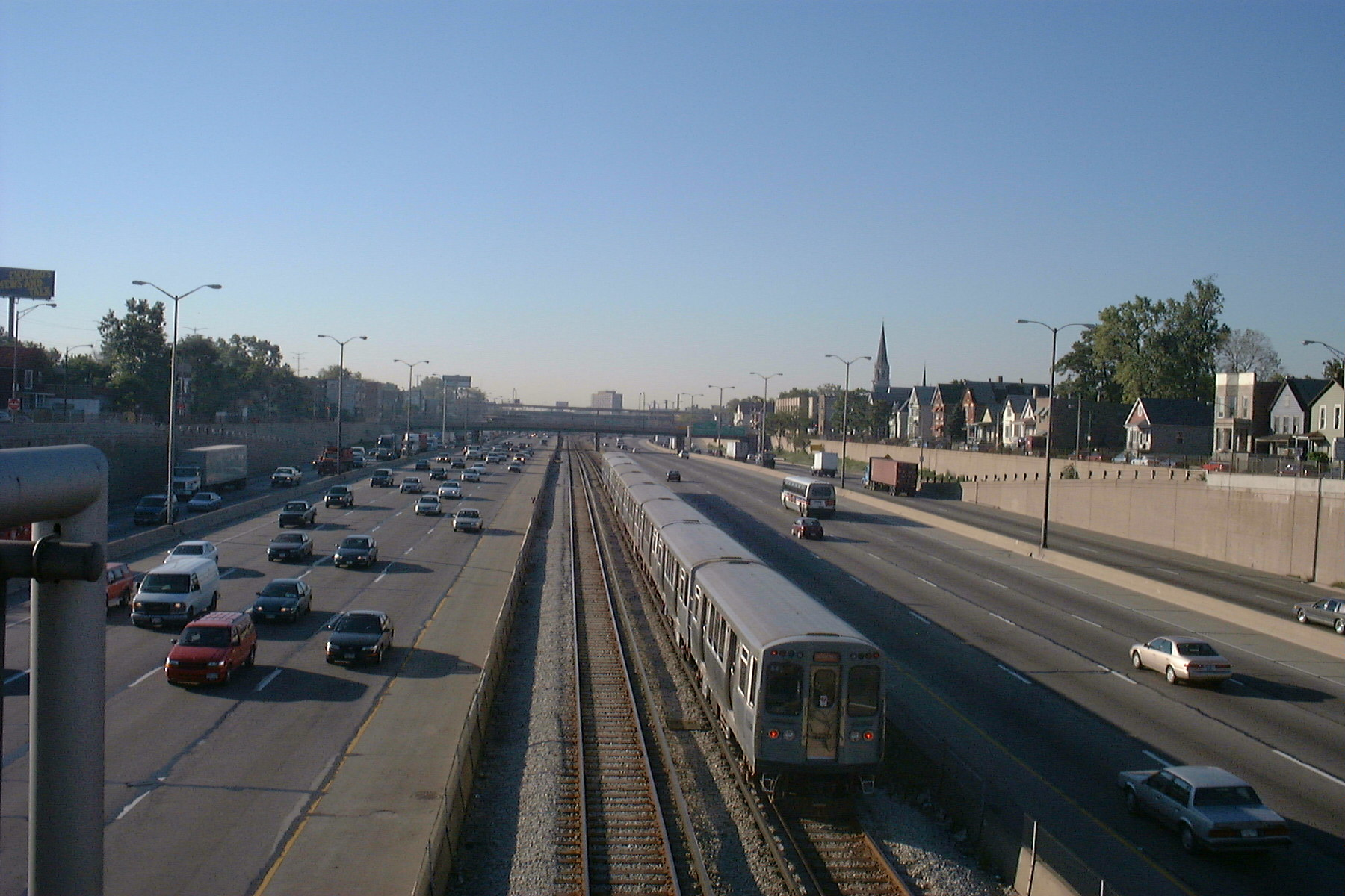 Red line 'L' on the median of Dan Ryan Expressway. Photo by LHOON Featured on Flickr